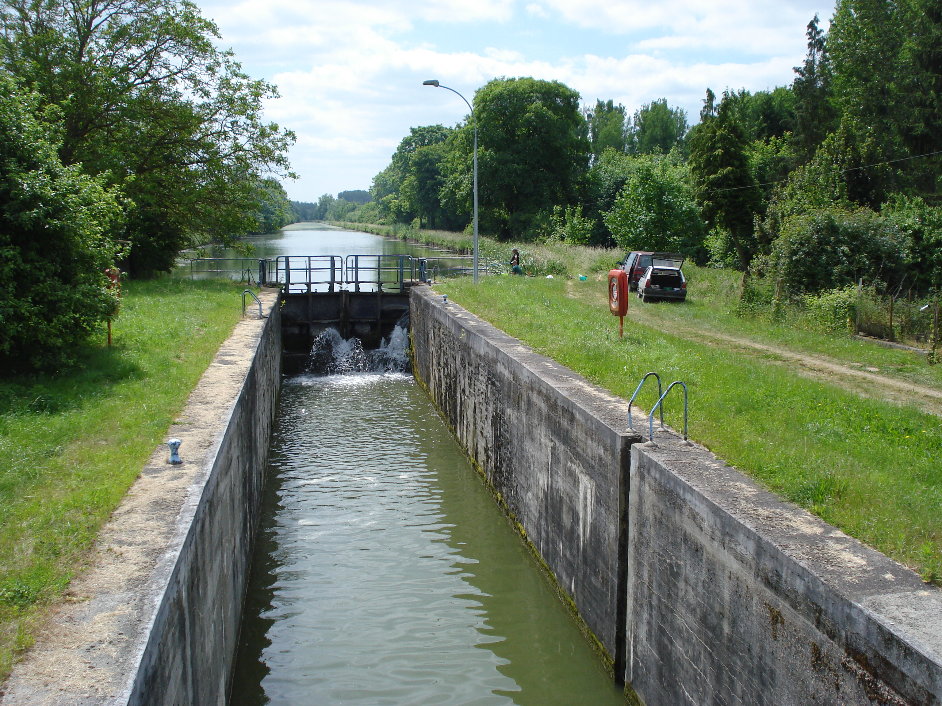 Canal de Vouziers à Vrizy (Ardennes, Fr). Ce canal est un embranchement du Canal des Ardennes.